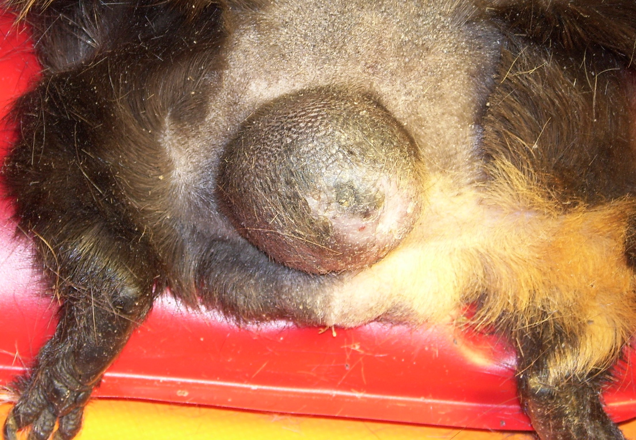 Tumor of the caudal gland in a guinea pig